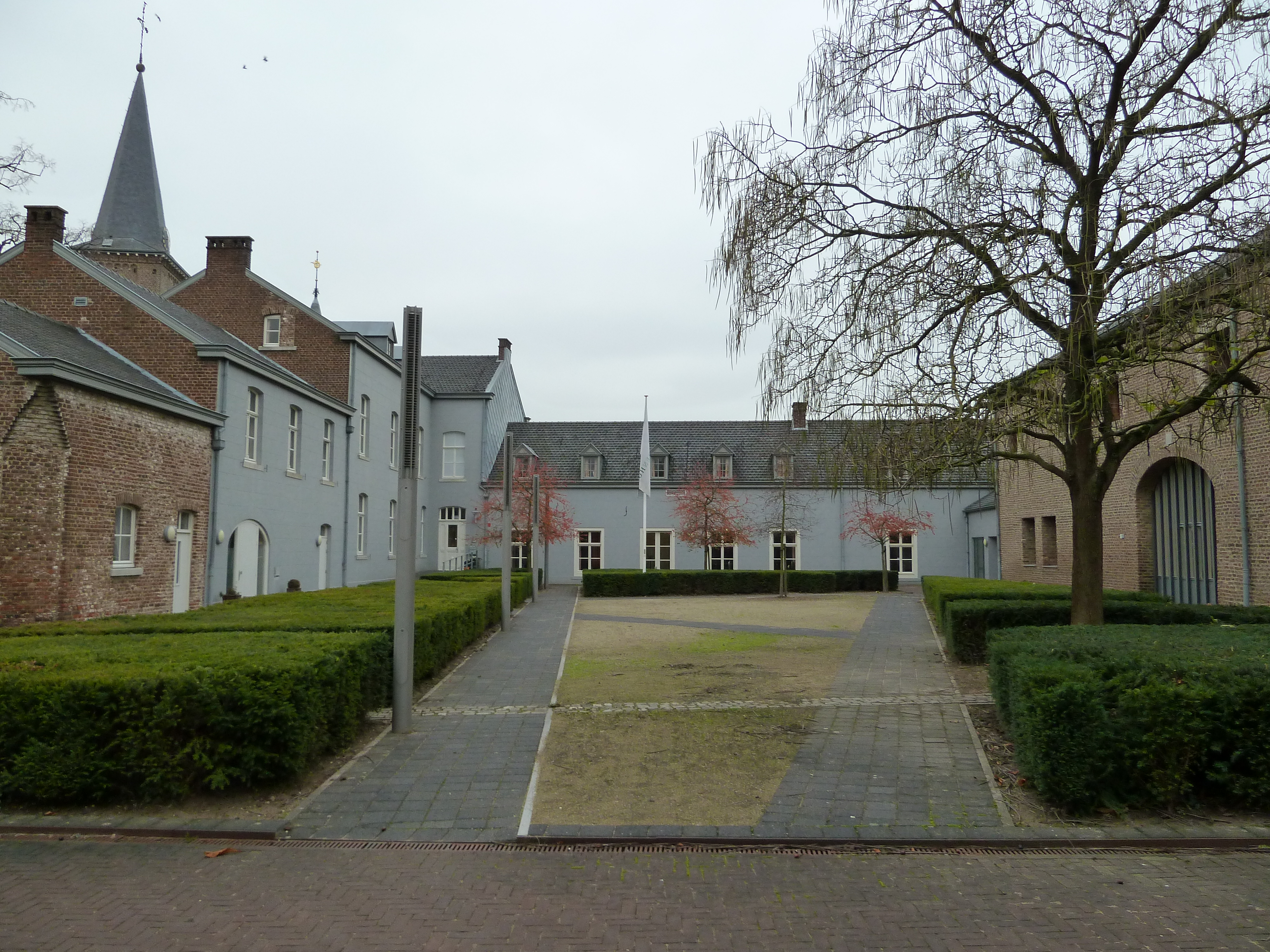 Heerenhofweg 8, Mechelen, Limburg, the Netherlands